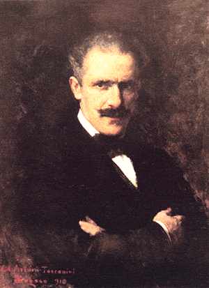 Portrait of Arturo Toscanini